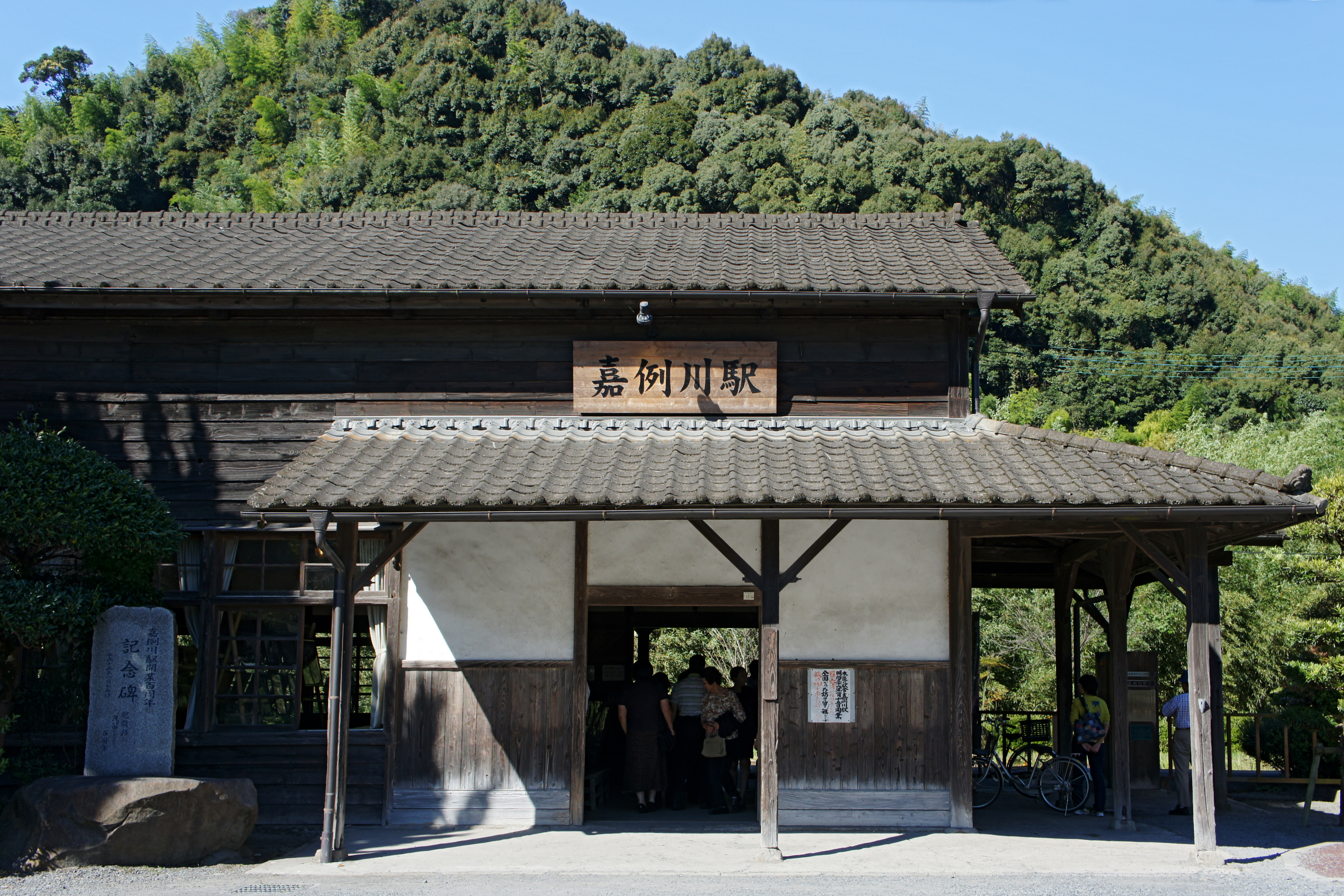 Kareigawa Station in Kirishima, Kagoshima prefecture, Japan